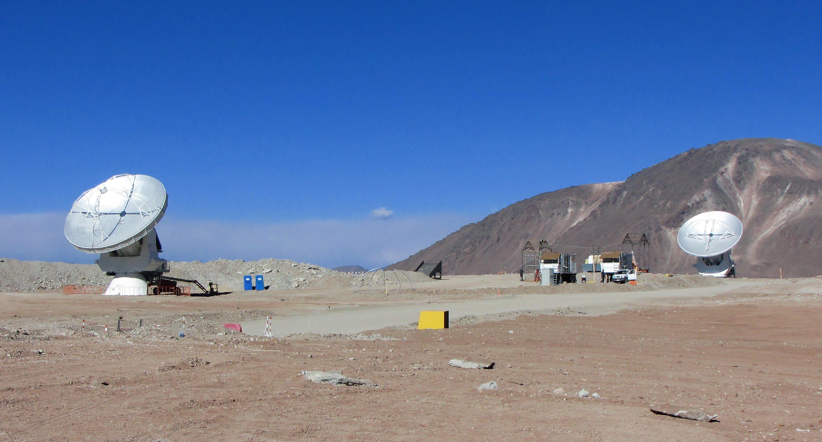 The first two ALMA antennas linked together as an interferometer on the 5000-metre altitude plateau of Chajnantor. These antennas were used to make the first interferometric measurements of radio signals — so-called “fringes” — of an astronomical source from this site. This is an important technical step for ALMA, as it used a full suite of the production equipment, including two of the 12-metre diameter antennas, and sophisticated electronic systems for receiving and correlating the signals.